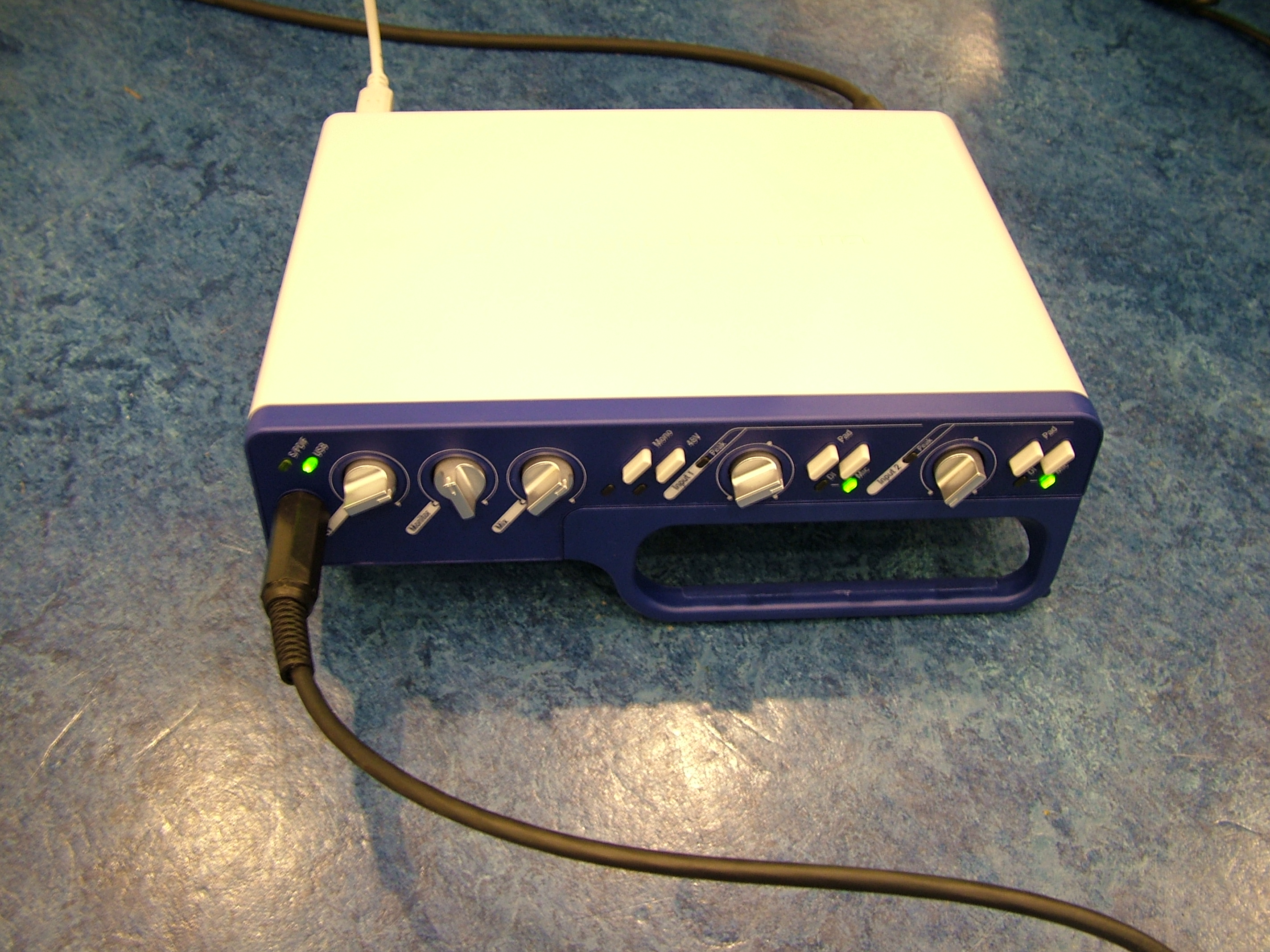 digidesign MBox 2 Setting up for Science Week Ireland by configuring the Protools Mixer in the Tipperary Institute main hall.